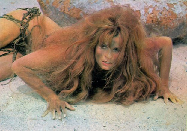 Still from the Italian comedy fantasy film Quando le donne avevano la coda (1970) with Senta Berger, from the February 1970 Playmen page 135.